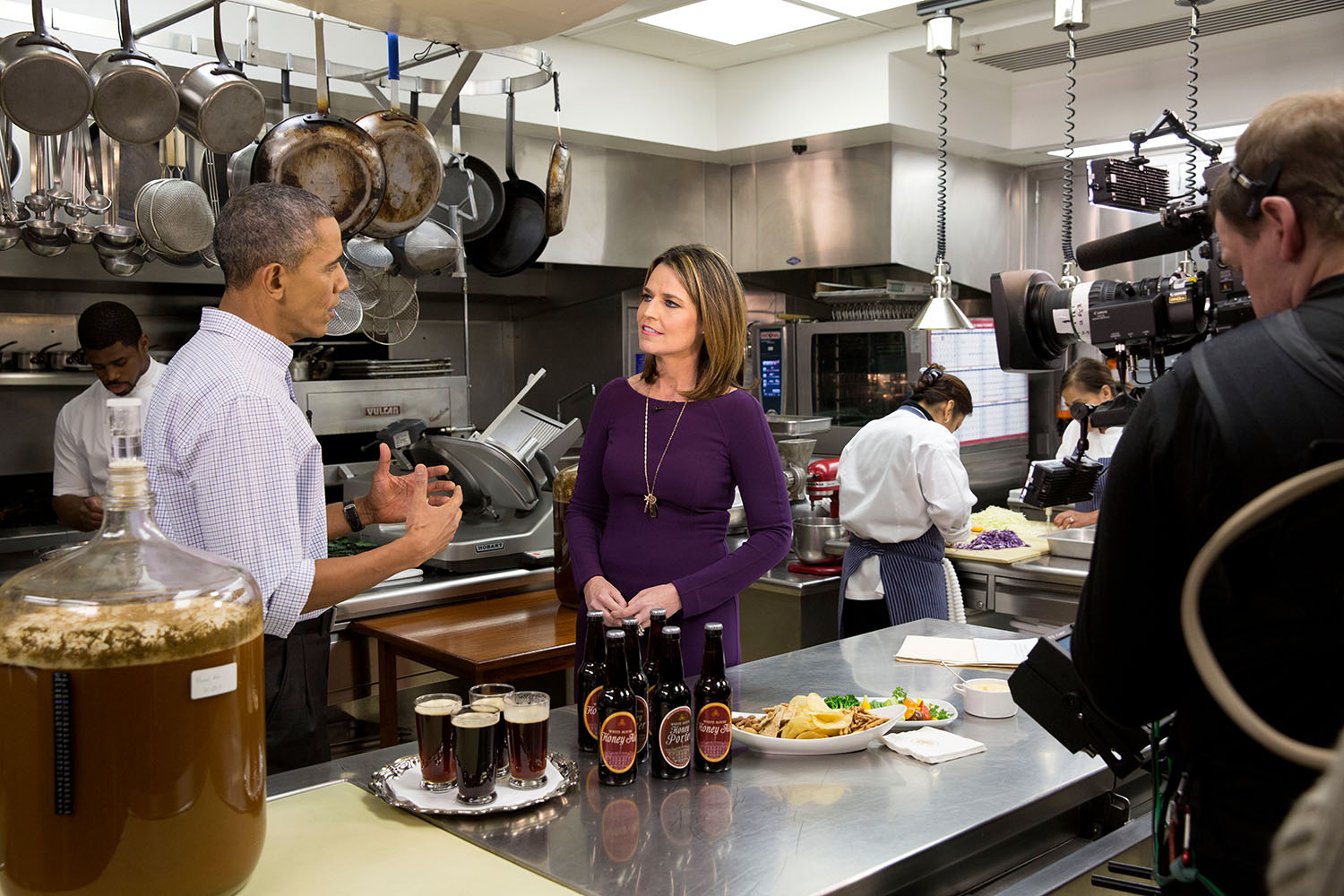 President Barack Obama participates in a live NBC interview in the White House Kitchen with Savannah Guthrie for the Super Bowl XLIX pre-game show, Sunday, Feb. 1, 2015. (Official White House Photo by Pete Souza)